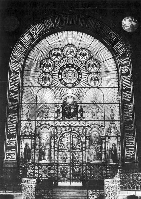 iconostasis of St. Julian church in Tsarskoye Selo